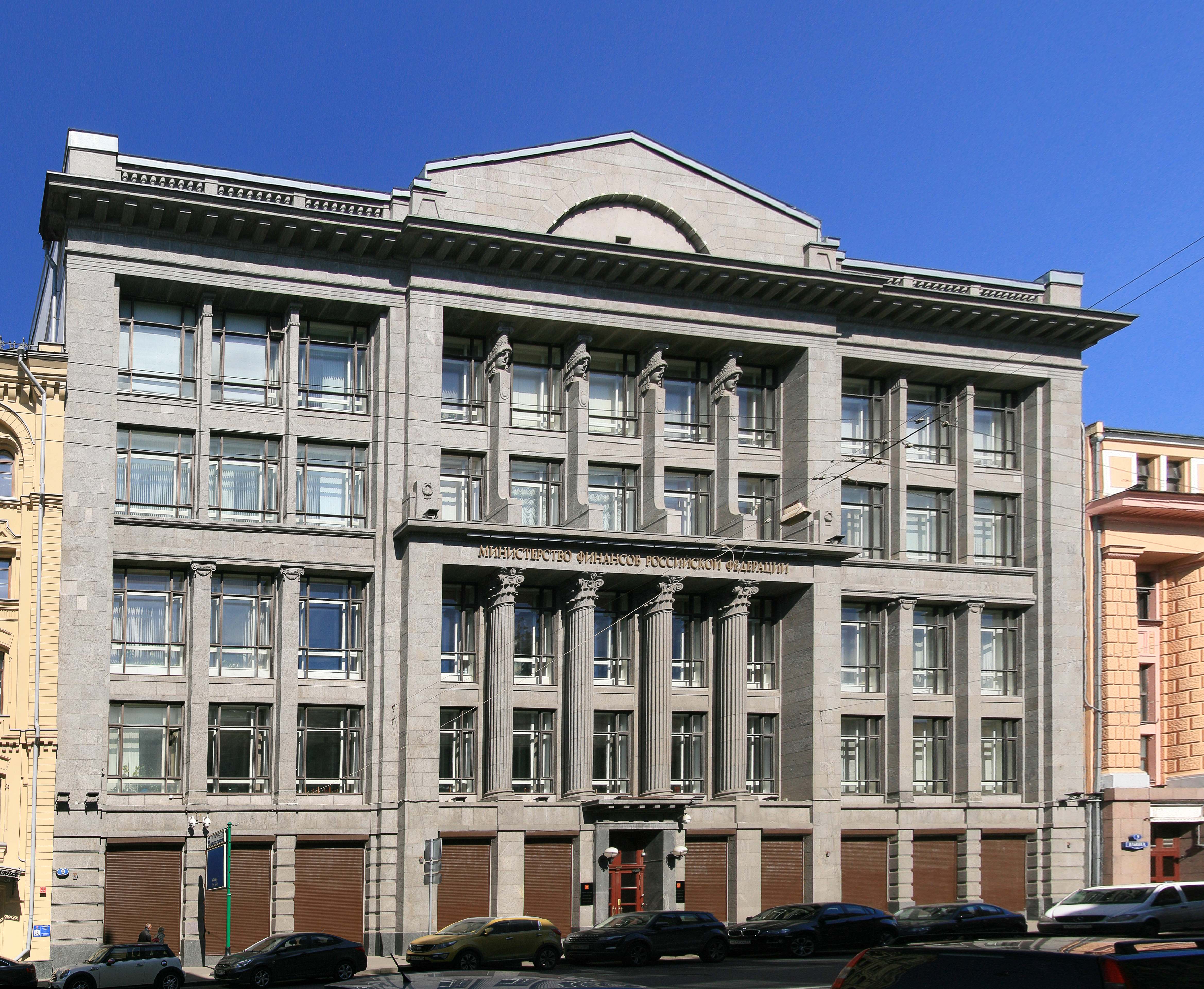 Saint-Petersburg Commersial Bank, architect A. Erikhson, 1910-1911, Ilyinka street 9 str. 1. Moscow